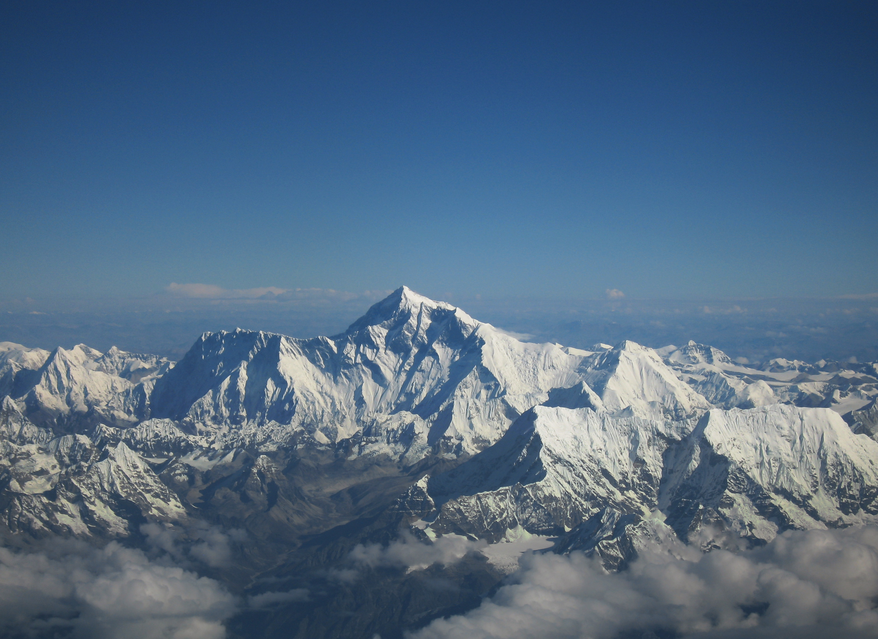 Mount Everest as seen from the aircraft of Drukair in Bhutan